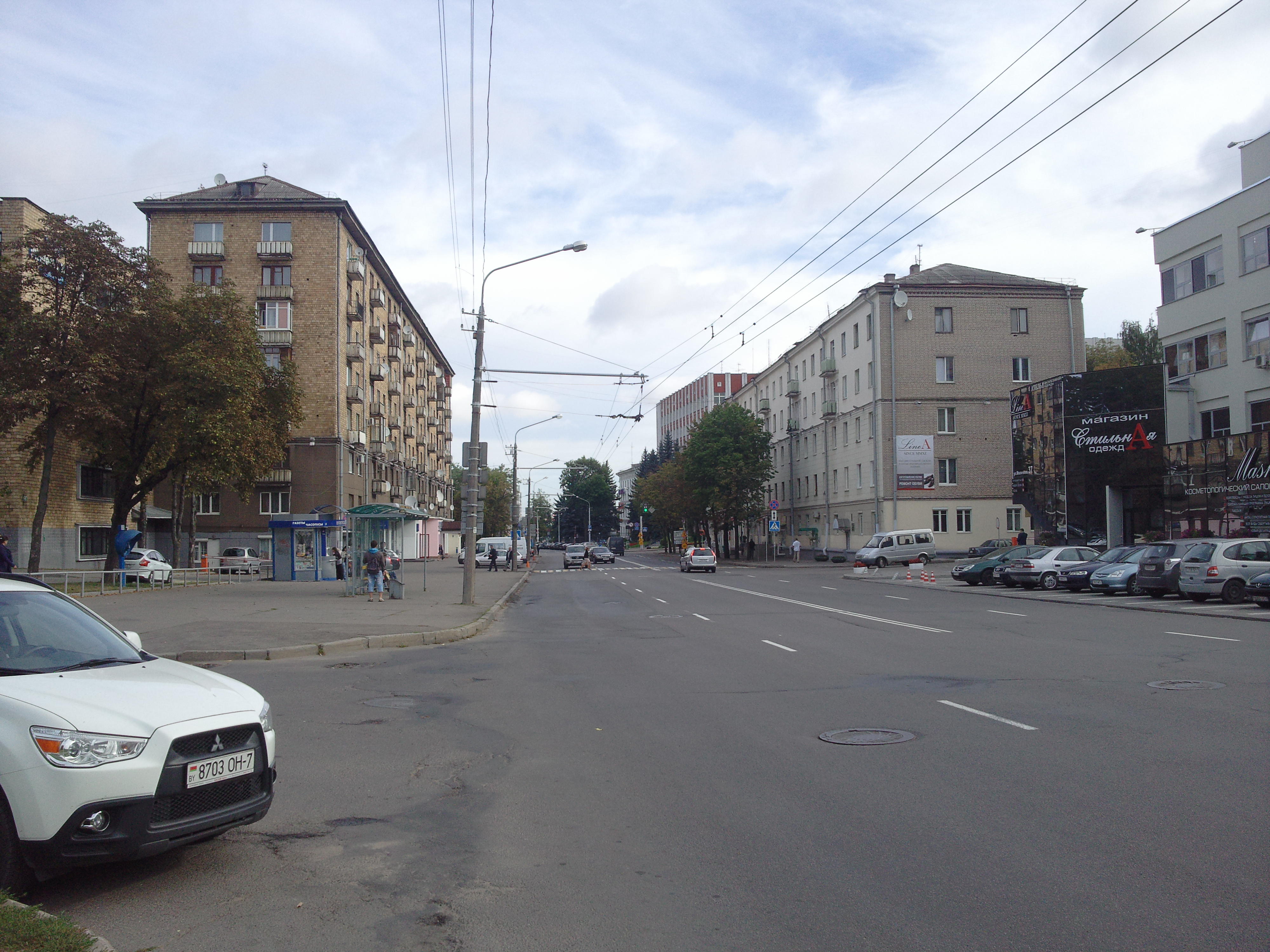 The Miasnikov street in Minsk